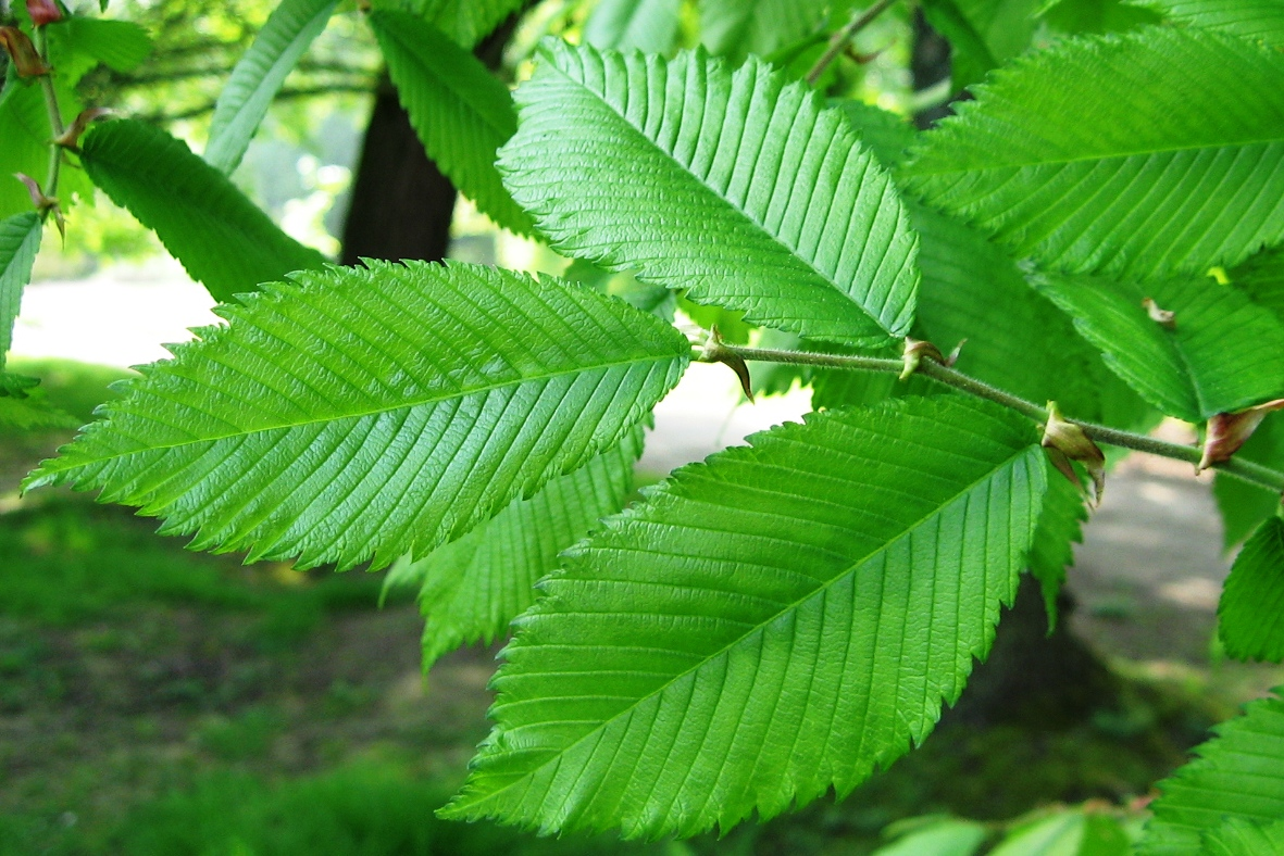 Photo of Ulmus thomasii leaves, Meisse.